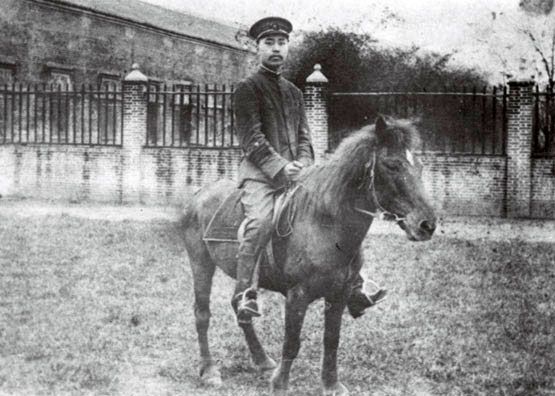 Zhao Sheng (1881-1911)